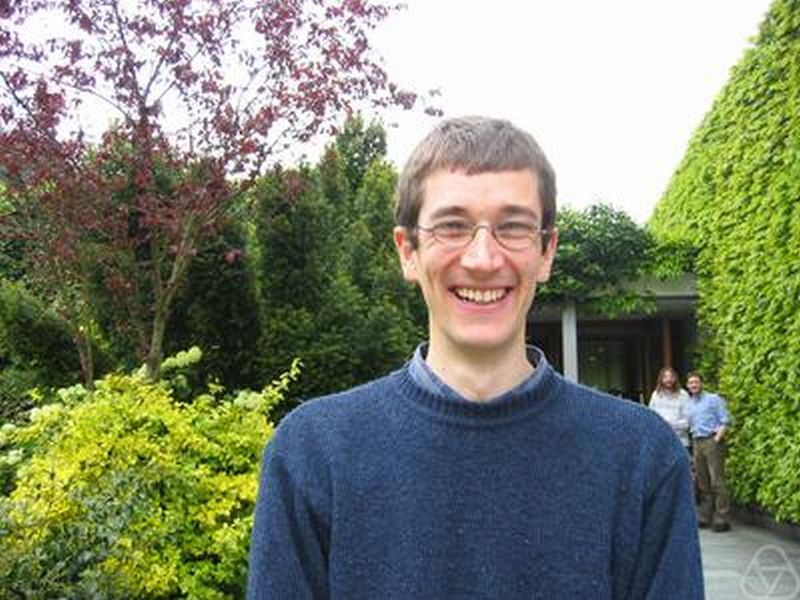 Fabrizio Andreatta, Oberwolfach 2005